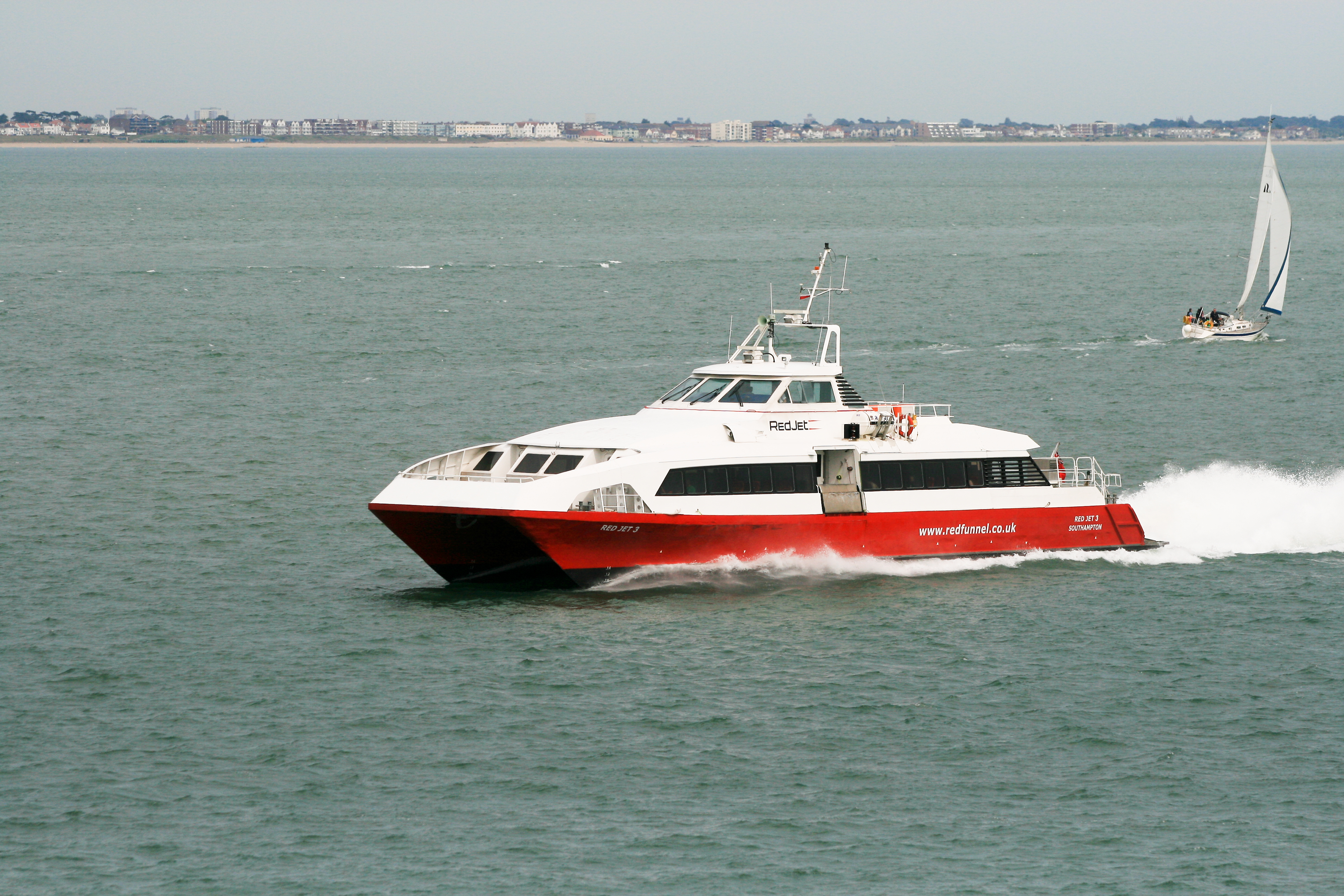 Red Funnel catamaran Red Jet-3 at speed, passing Calshot Spit northbound from West Cowes, Isle of Wight to Southampton on 17 June 2013, photographed by Brian Burnell. Wikipedia editors are reminded that the copyright remains with the photographer, and that the terms of the Creative Commons (CC), Attribution (BY), Share Alike (SA) CC-BY-SA-3.0 that allow editors to reuse this image apply to Wikipedia editors also, as they do to other re-users of this image. Breaches of the licence terms are not only unlawful, but are also antisocial, in that breaches discourage photographers from making their images freely available to everyone without payment. Wikipedia re-users are also reminded of the license terms that derivatives of this image should not imply that the adaptation is endorsed or approved by the author or copyright holder. Neither should derivatives be presented as the creation of the author or copyright holder, while clearly stating that the adaptation is a derivative of the original. Attribution online should be in this format Brian Burnell. On the printed page, a simpler form is acceptable - example: "Image: Brian Burnell".